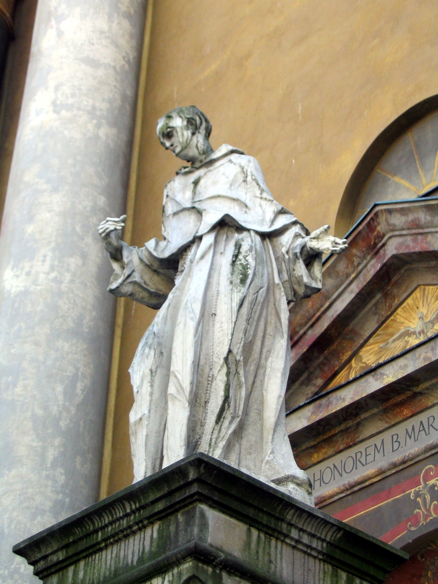 Franciscan Church in Przemyśl. Statue of Saint Giles.